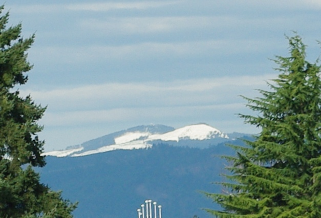 South Saddle Mountain with snow from Hillsboro, Oregon.